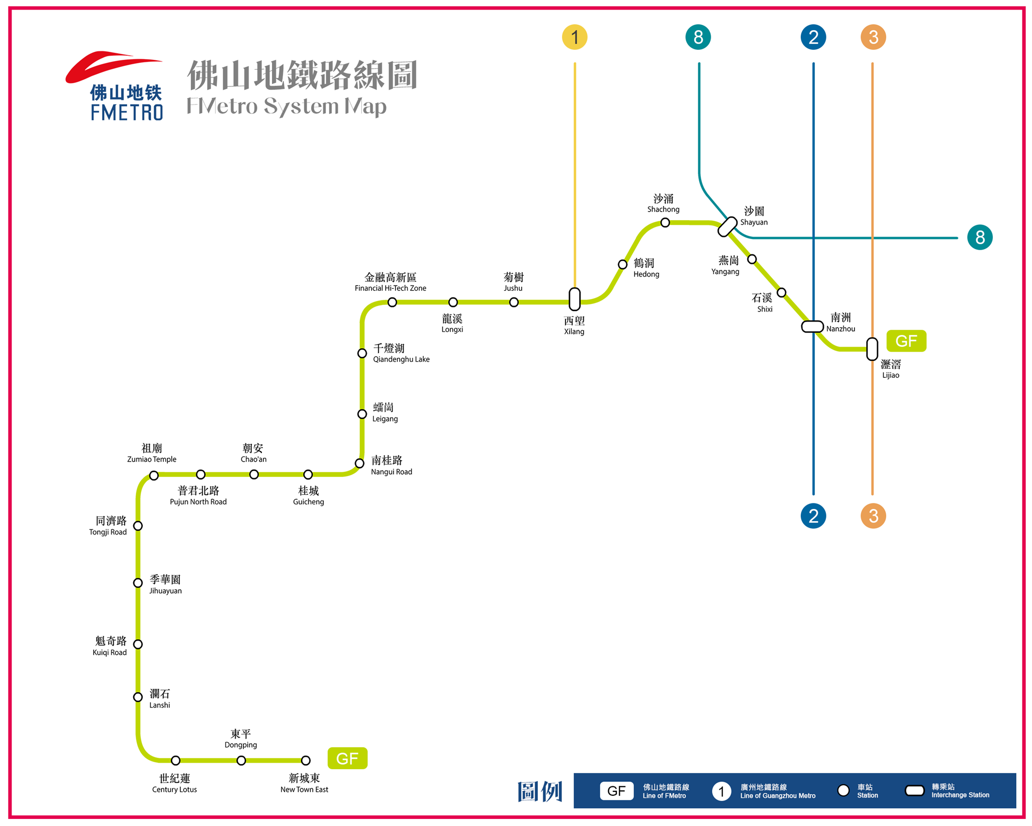 FMetro System Map